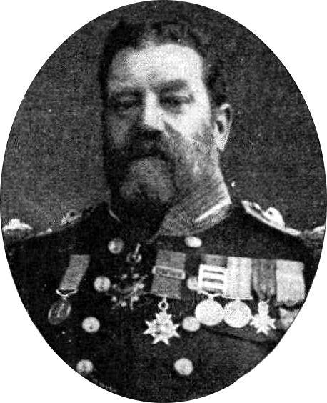 Portrait of Vice-Admiral Harry Rawson from the Illustrated London News, December 24th 1898.